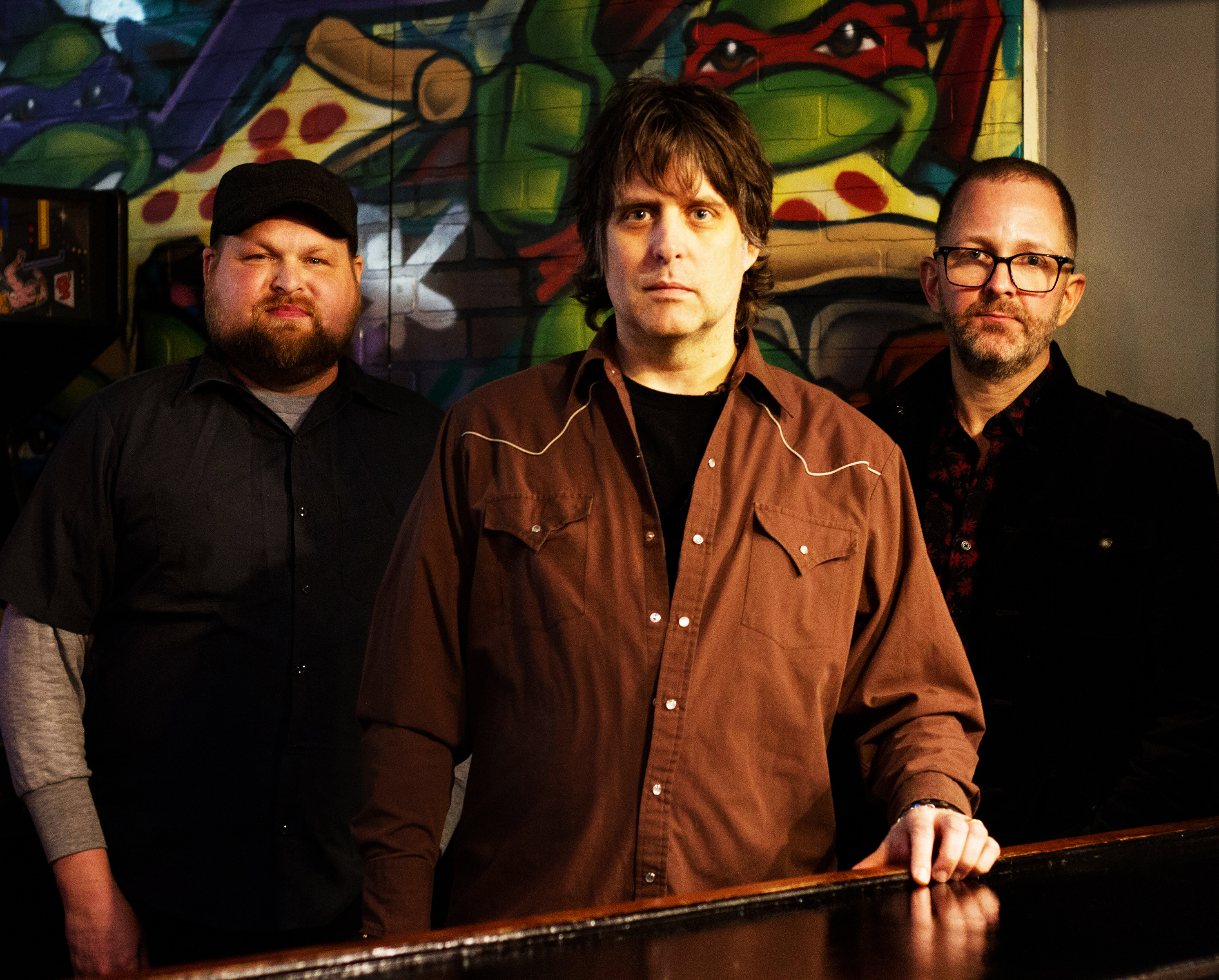 Jeremy Porter and The Tucos photographed in Indianapolis, Indiana by Sara Jones in January, 2019. L. to R. Gabriel Doman, Jeremy Porter, Bob Moulton.